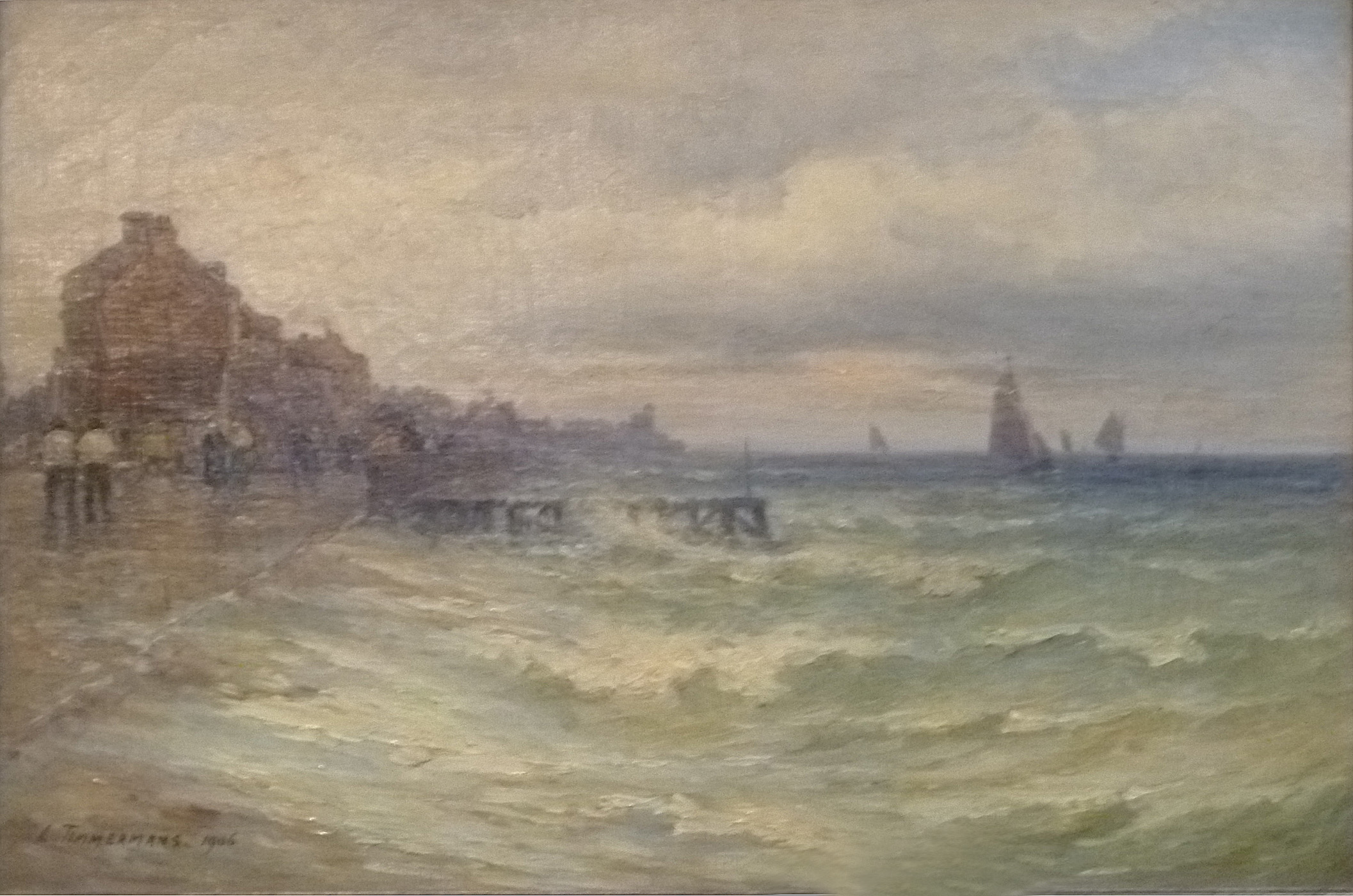 "La digue à Grandcamp (Normandie" (1906), olieverf op doek (38 x 55 cm) door de Belgische kunstschilder Louis Timmermans (1846-1910); privébezit